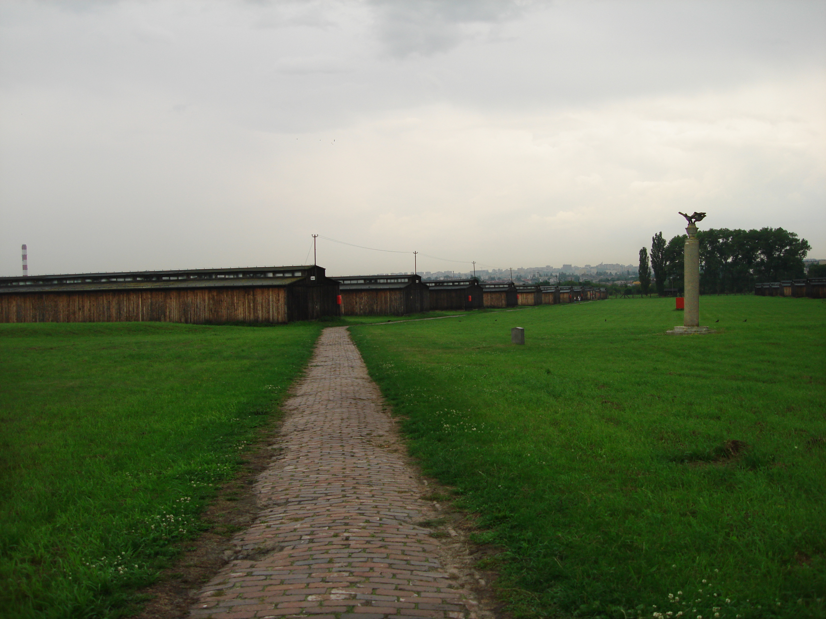 German concentration camp Majdanek